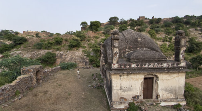 There are some well-executed copper coins of a person calling himself "Fateh-ud-duniya-wa-ud din Jalal Shah". They are dated in the years 841, 842, 843. Khanzadah Jalal is the great hero of the Khanzadahs, who are never tired of relating his gallant deeds, of which, perhaps, the most surprising was the asserted capture of Amber, the stronghold of the Kachwaha Rajas, and the carrying away of one of its gates to Indor, where it is still to be seen! Khanzadah Raja Jalal probably died about A.H. 845, and was succeeded by his brother Ahmad.